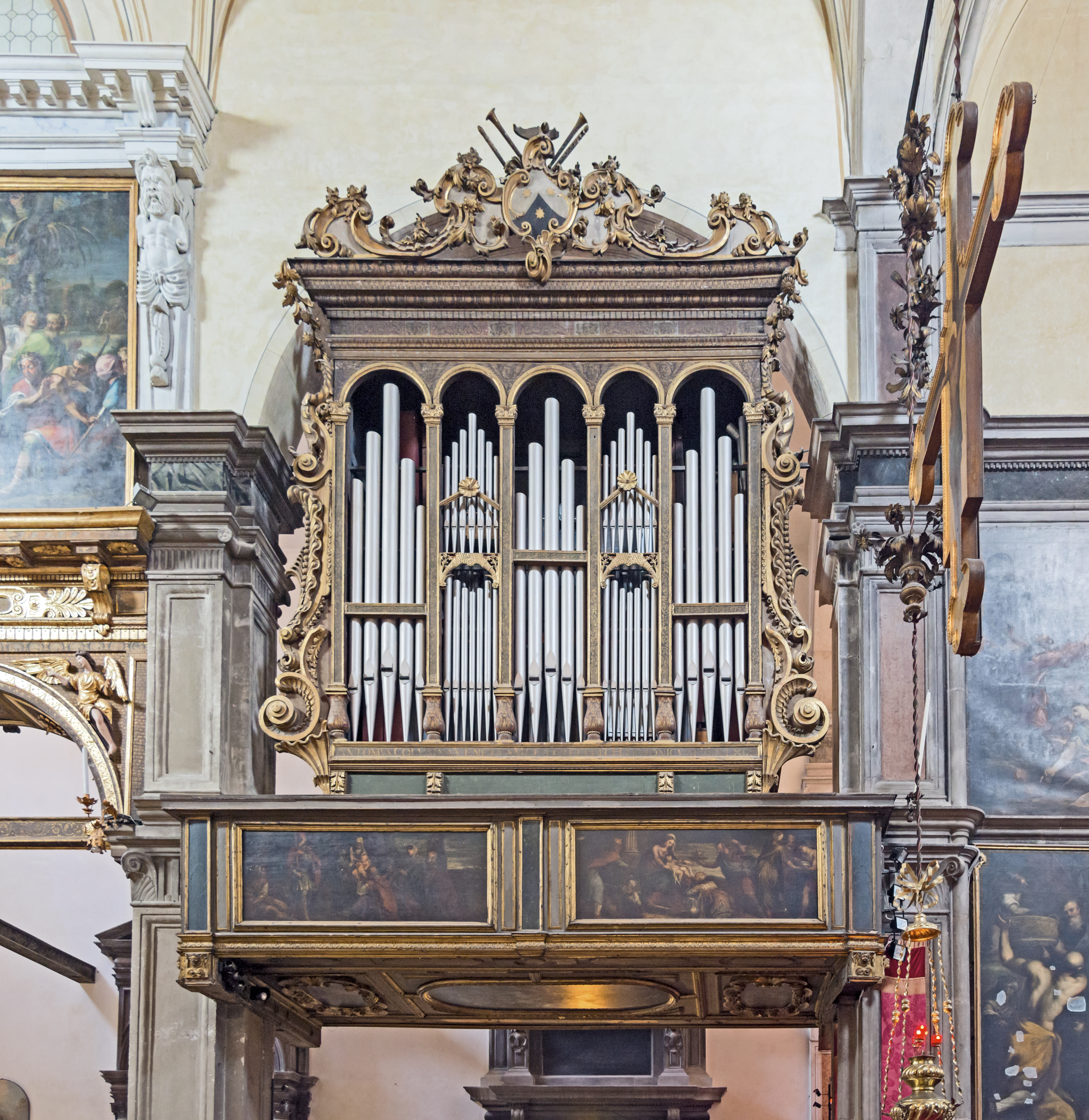 Santa Maria dei Carmini church — in Venice. Organ of the Mascioni factory.